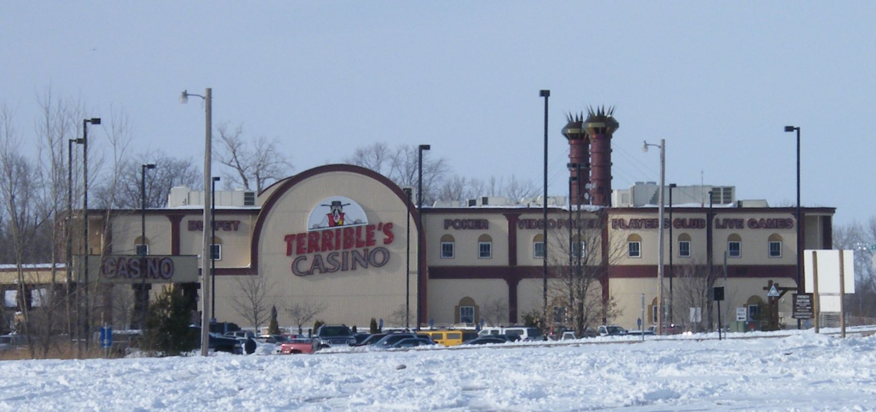 Terrible's St. Jo Frontier Casino in St. Joseph, Missouri